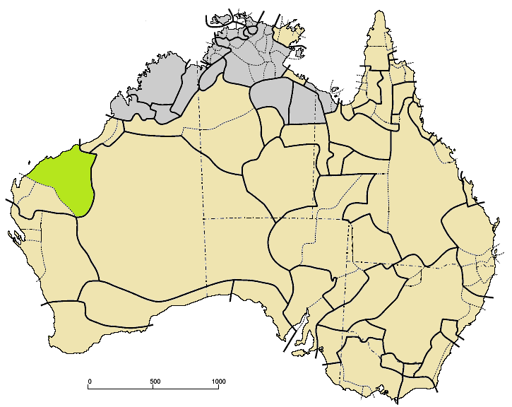 Ngayarda languages (green) among other Pama–Nyungan (tan)